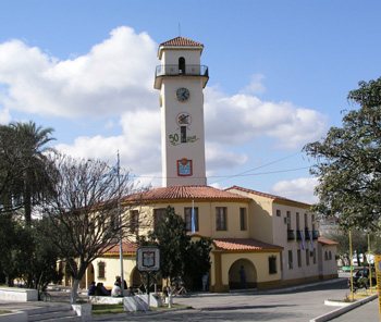 Taken by User:Mtiedemann June 2006